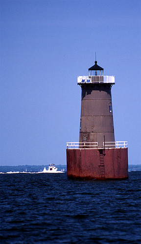 Bloody Point Lighthouse, Chesapeake Bay, MD